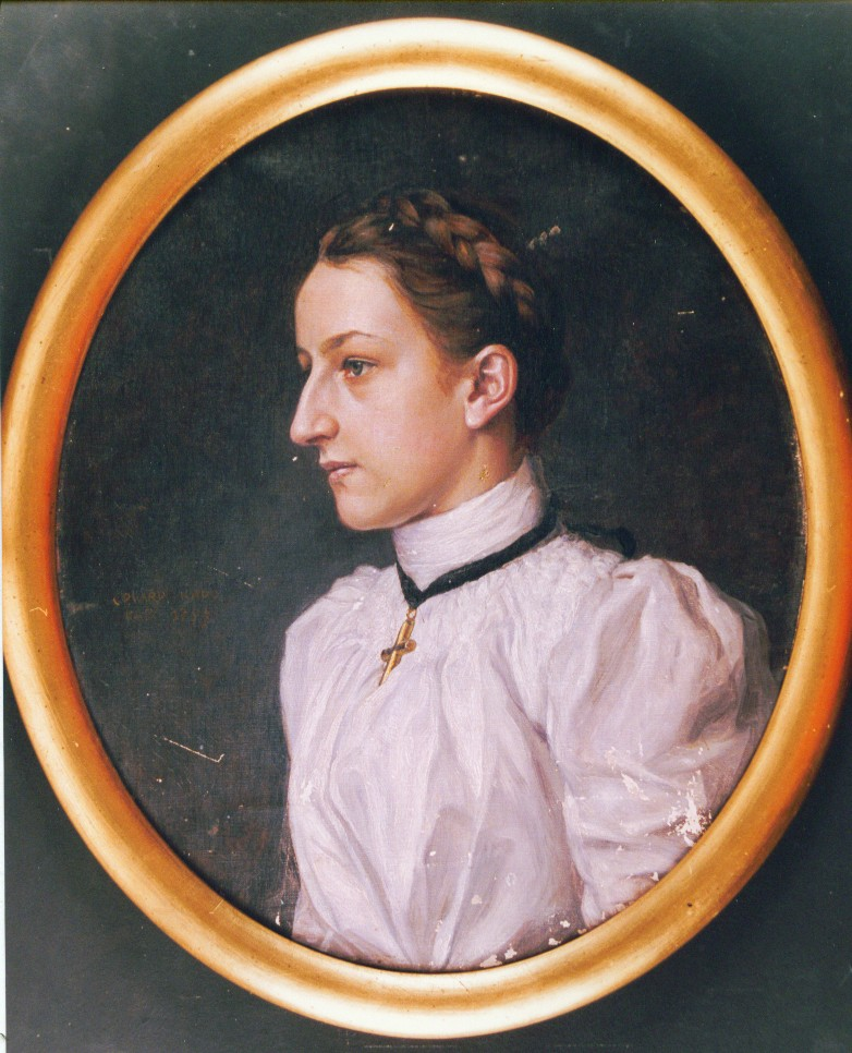 Painting in Oil of Elisabeth Lemke